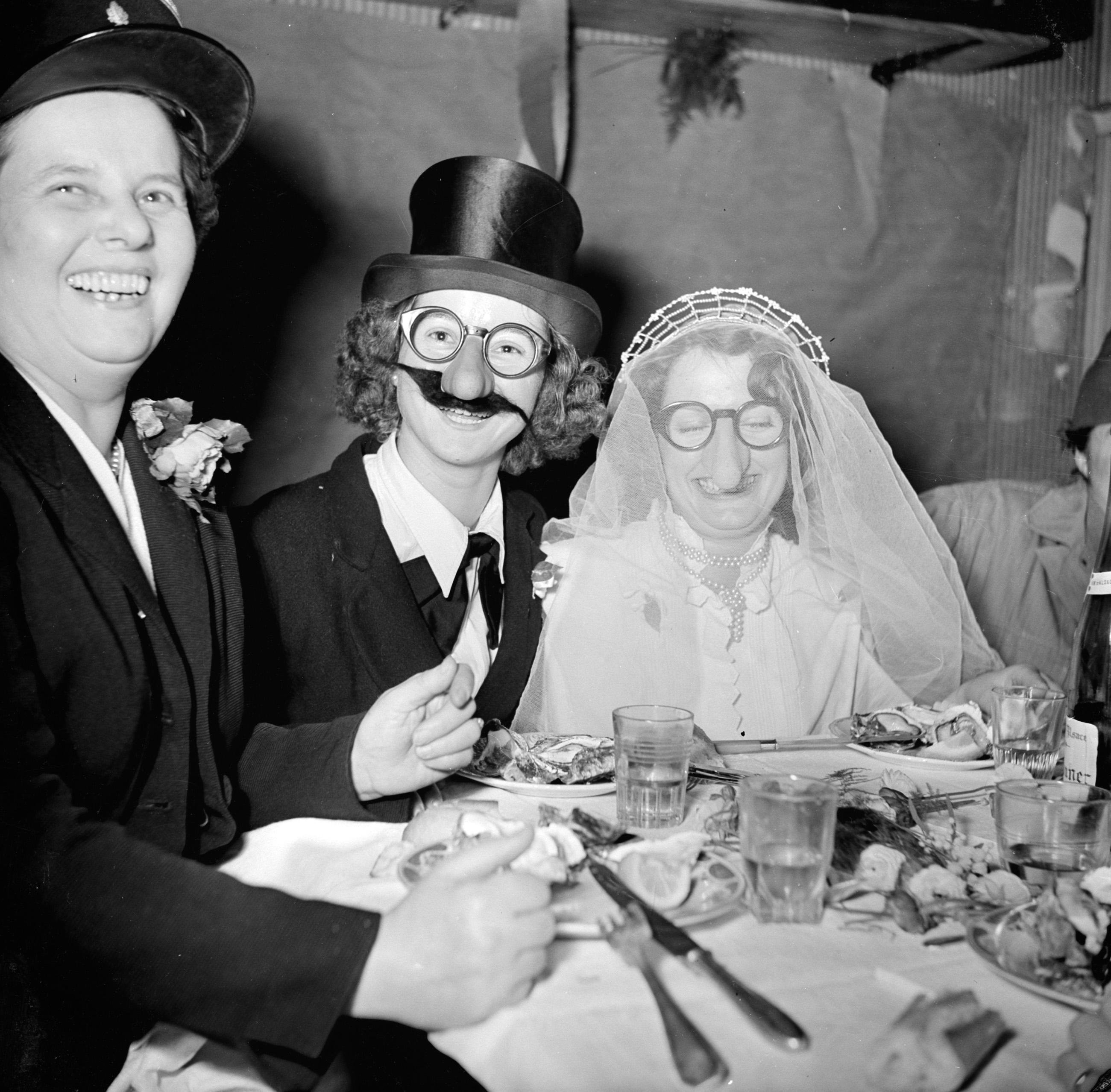 254-0181 Willem van de Poll